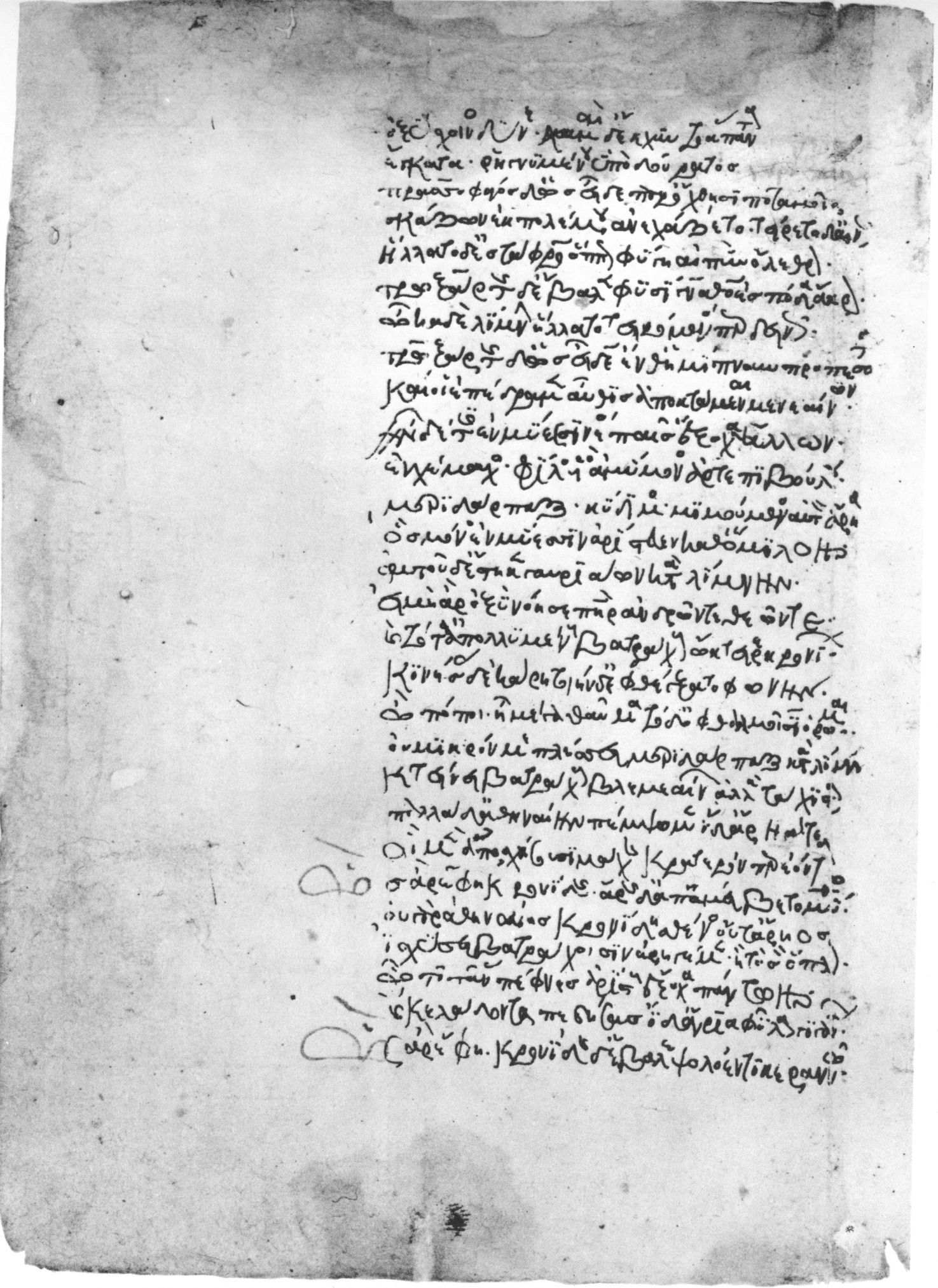 Batrachomyomachia in ms. Milan, Biblioteca Ambrosiana, I 4 sup., fol. 231v.